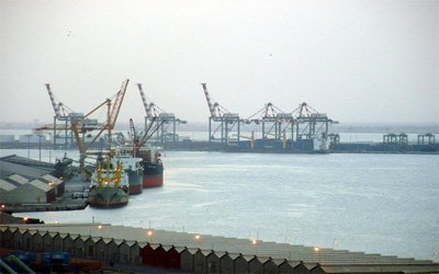 Its located In yemen